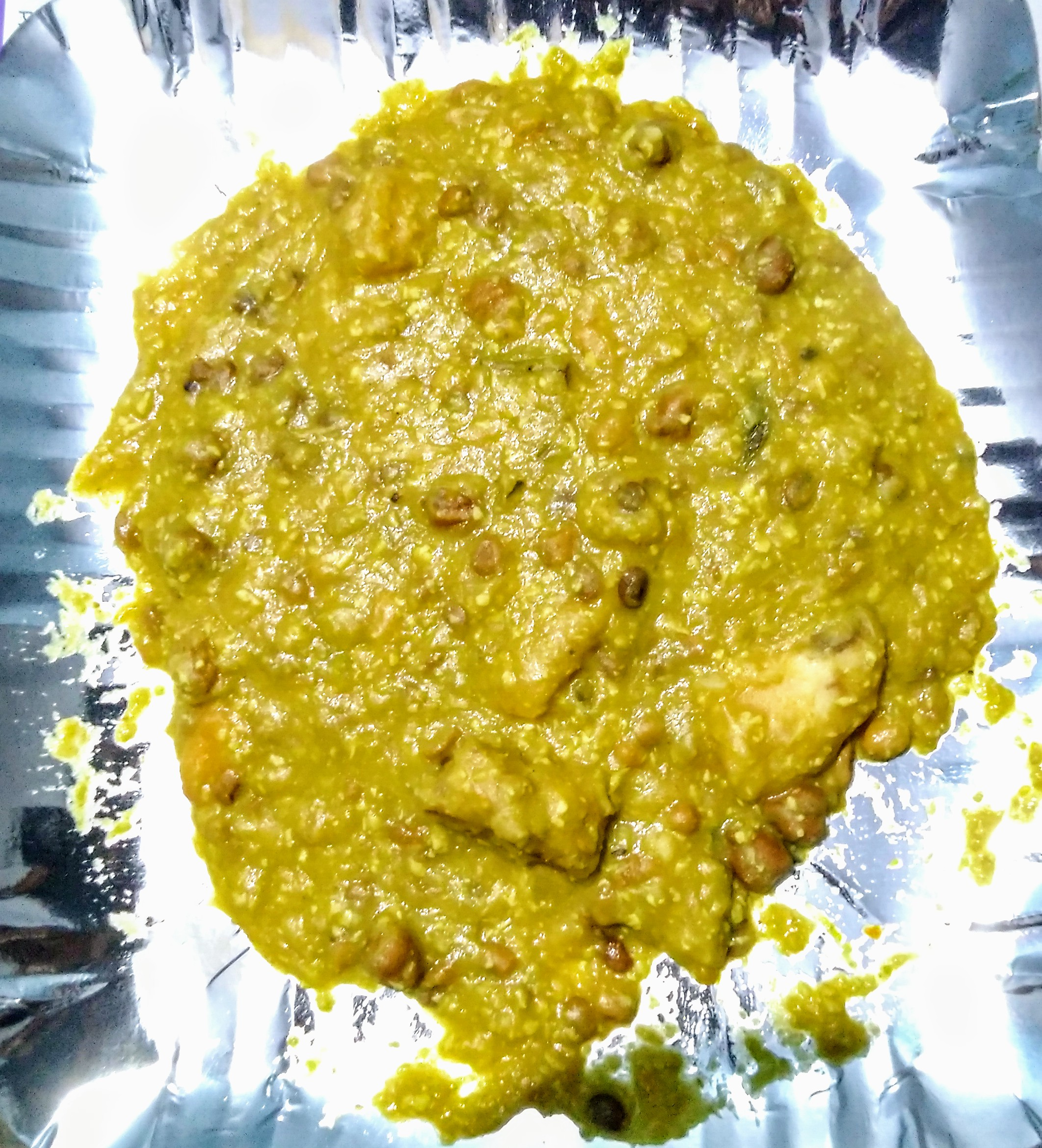 Dinner dish on the day of thiruvathira